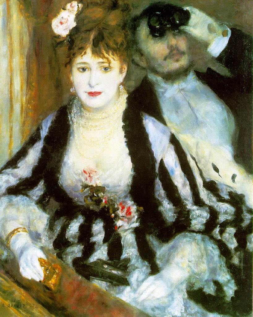 La loge (The Theater Box)